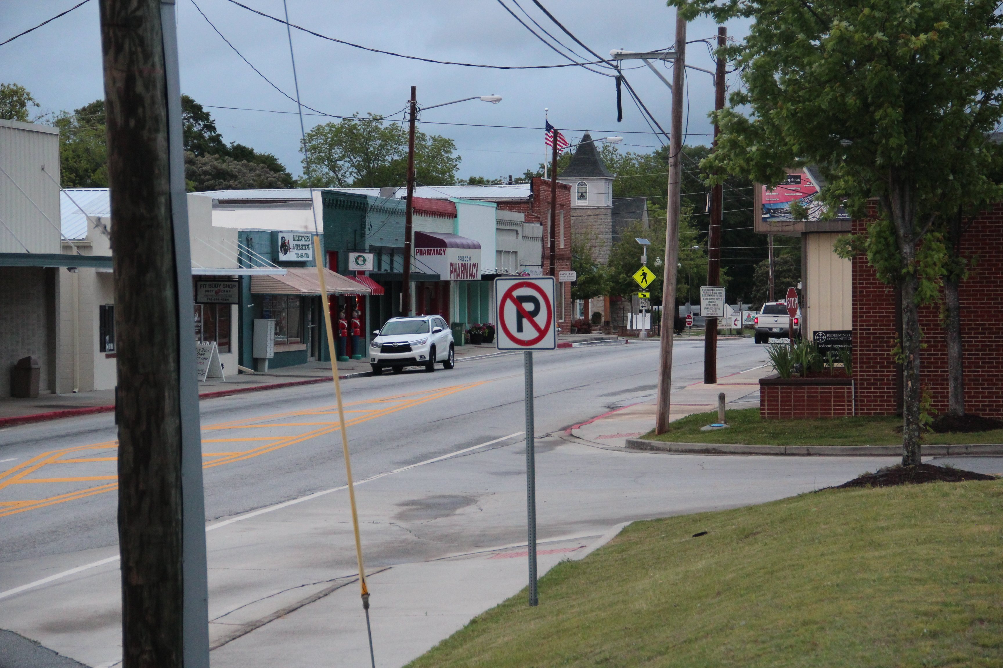 Main Street (SR 20) in Loganville, Georgia